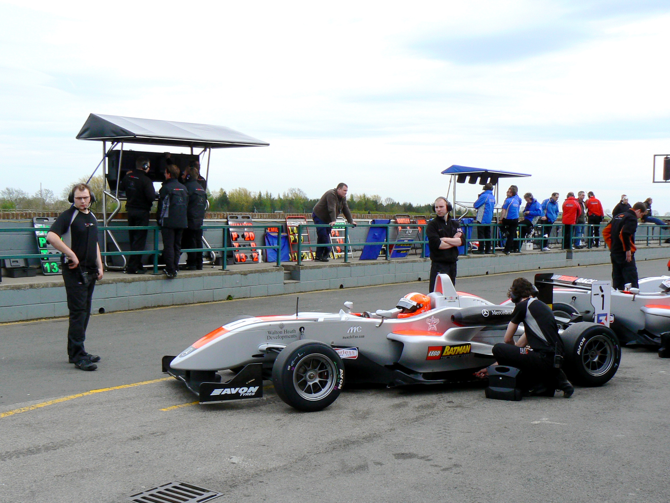 Max Chilton quaifying at the Croft round of the 2008 British Formula Three Championship.